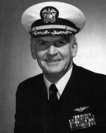 Capt John Heaphy Fellowes, US Navy